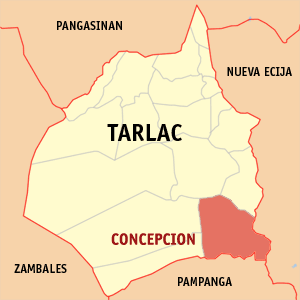 Map of Tarlac showing the location of Concepcion